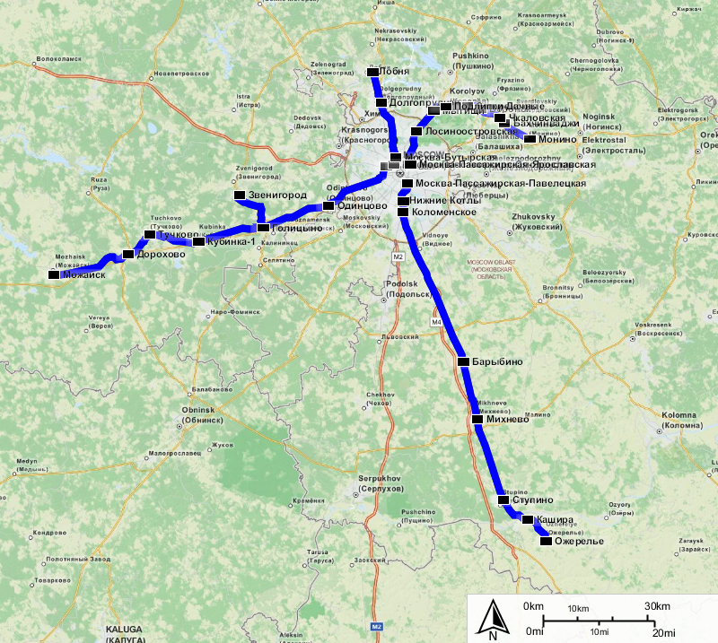 REKS trains routes in Moscow region